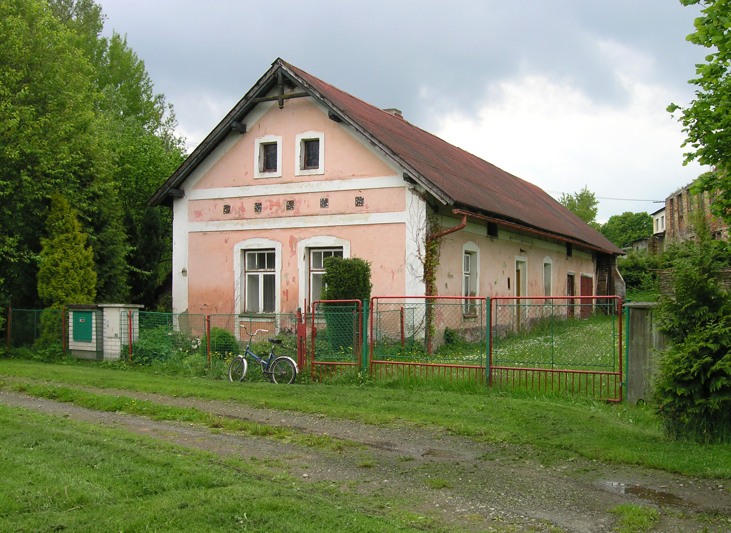 Proseč, part of Kámen village, Czech Republic